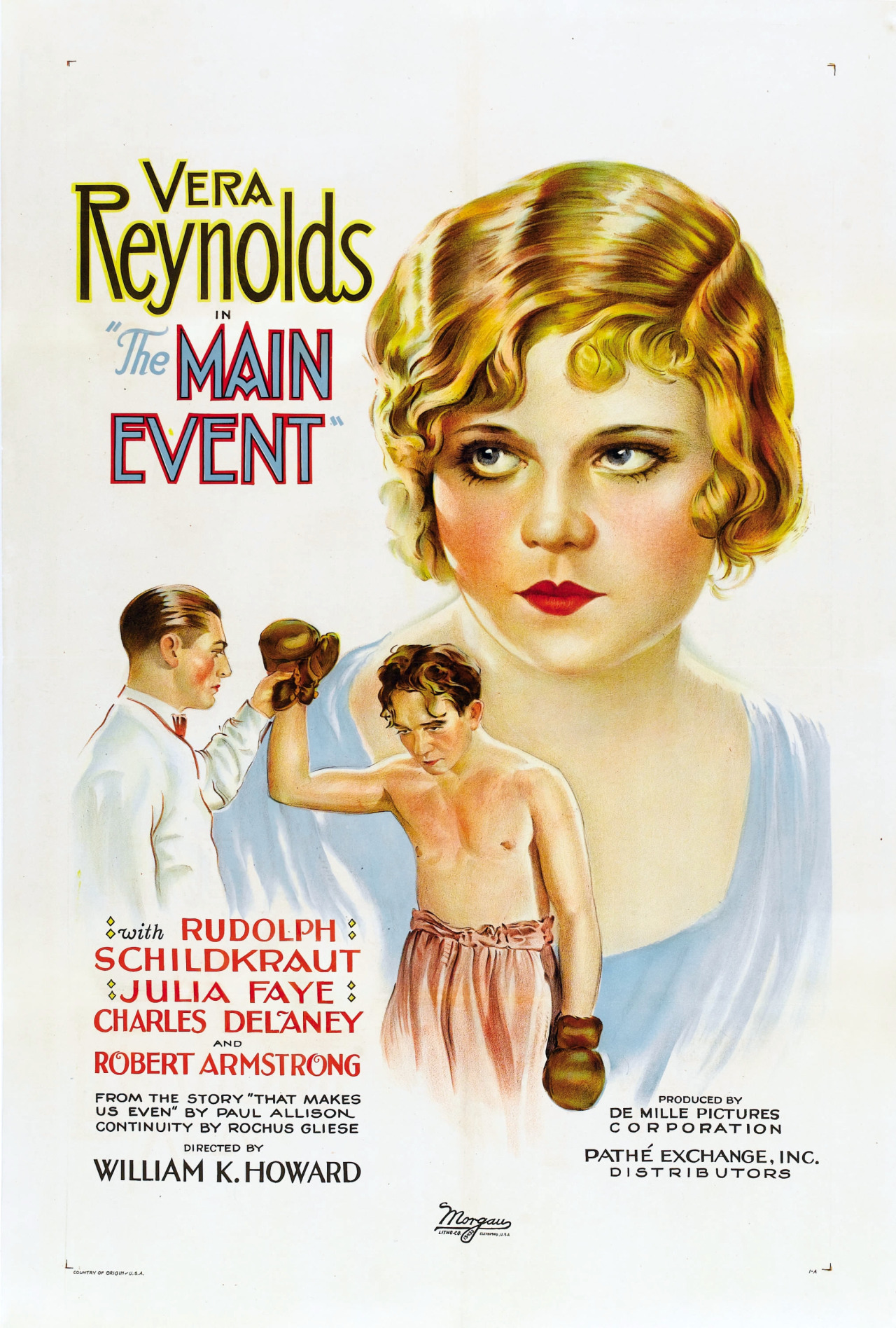 Poster for the 1927 film The Main Event. The item has no copyright markings on it as can be seen in the link above. At bottom left is Country of Origin USA, a logo for Morgan Litho Co., Cleveland, O-they printed the poster. and at bottom right 1A.